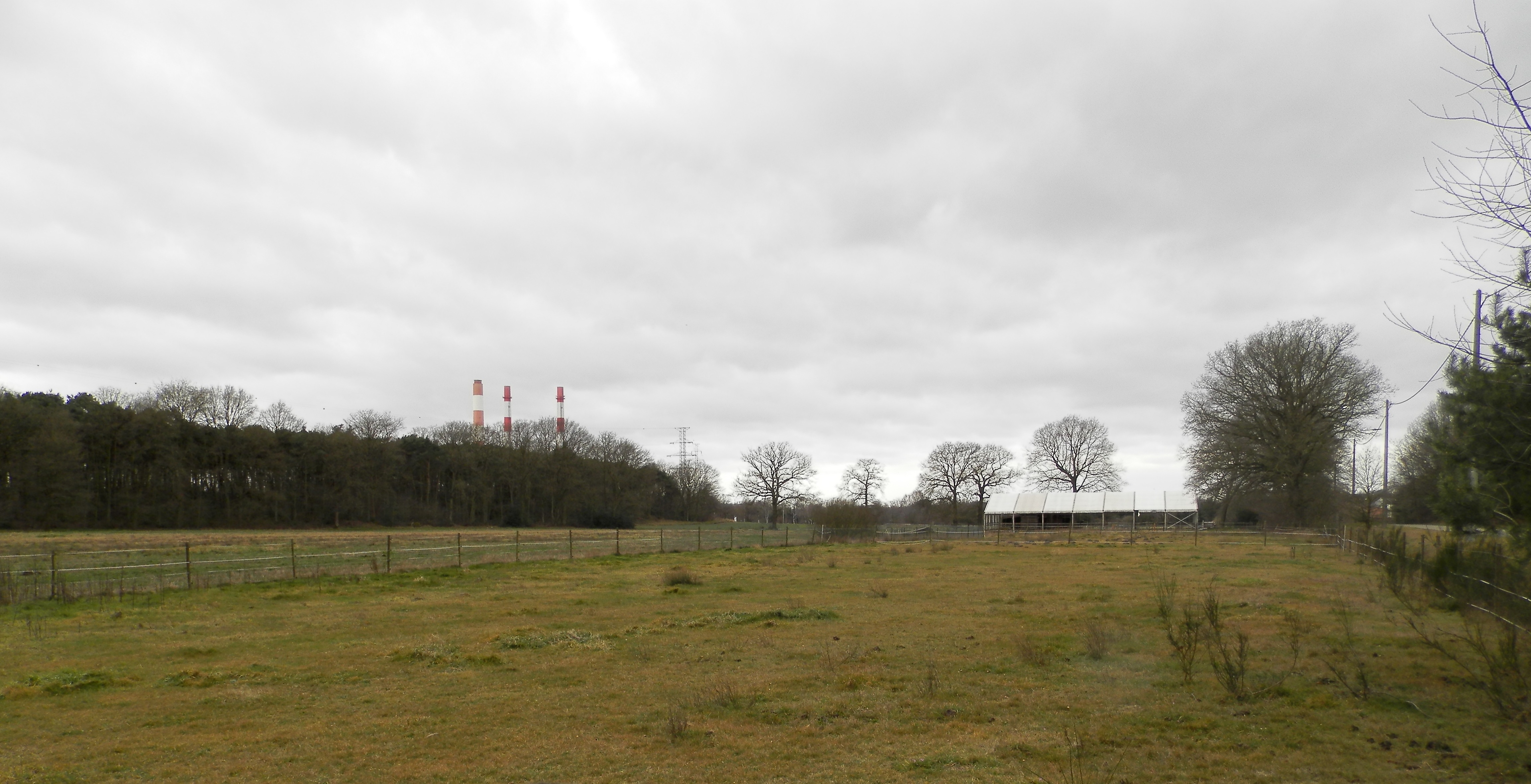 Langerlo